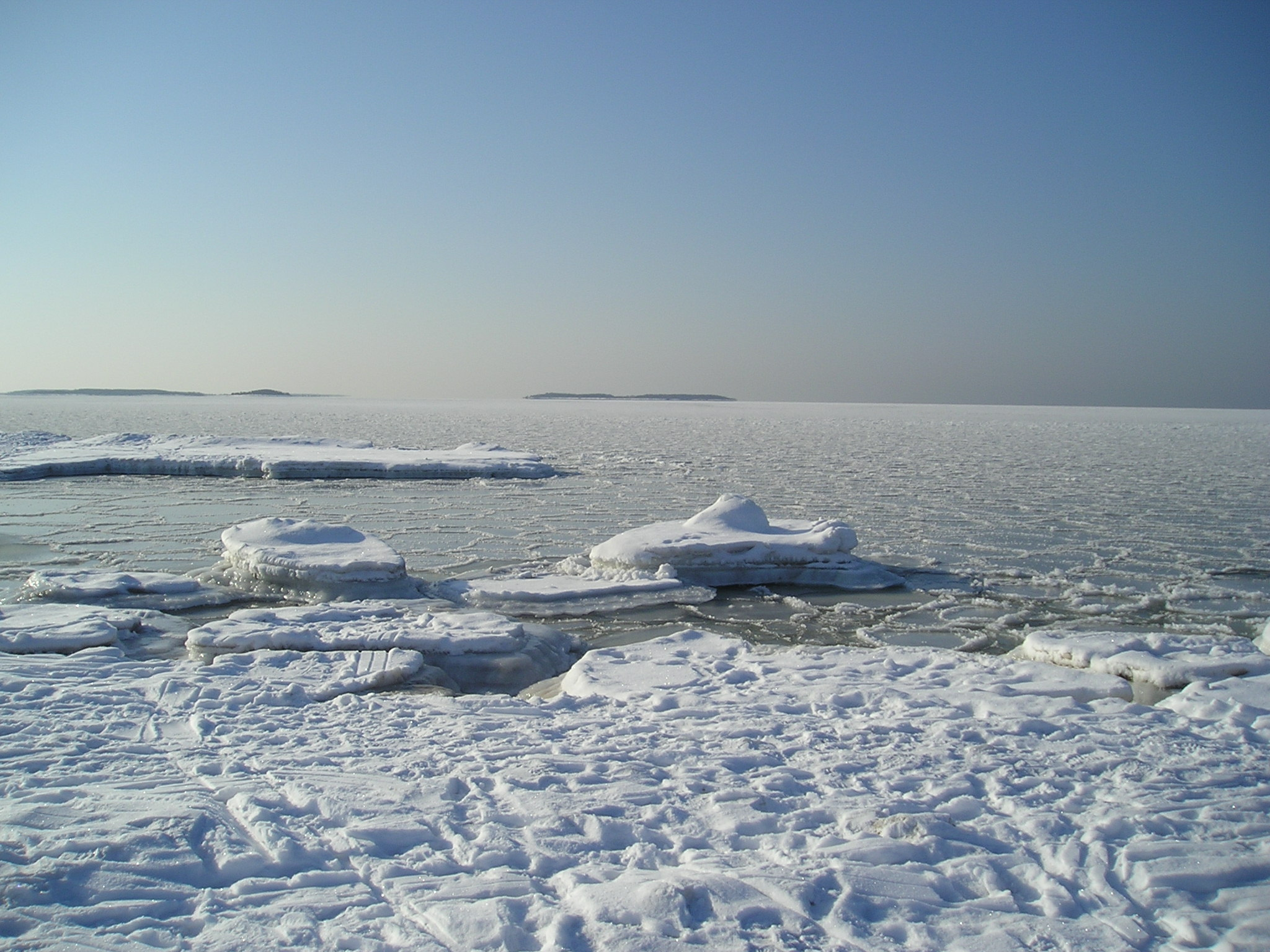 Yyteri Beach at winter.